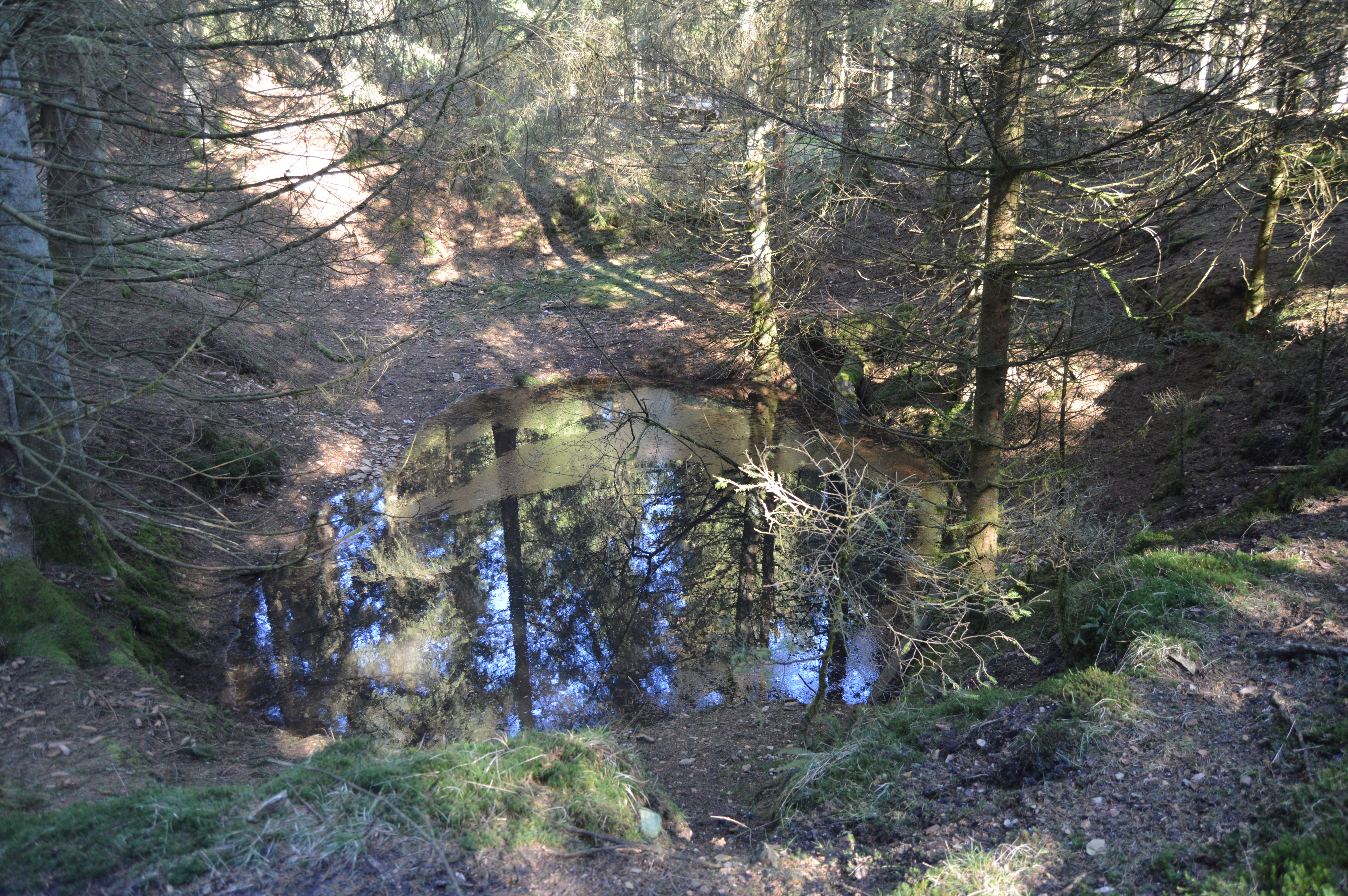 The Trou des Massotais ("Leprechaun Hole"), on the Plateau des Tailles in Belgium, an old gold mine digged by Celts